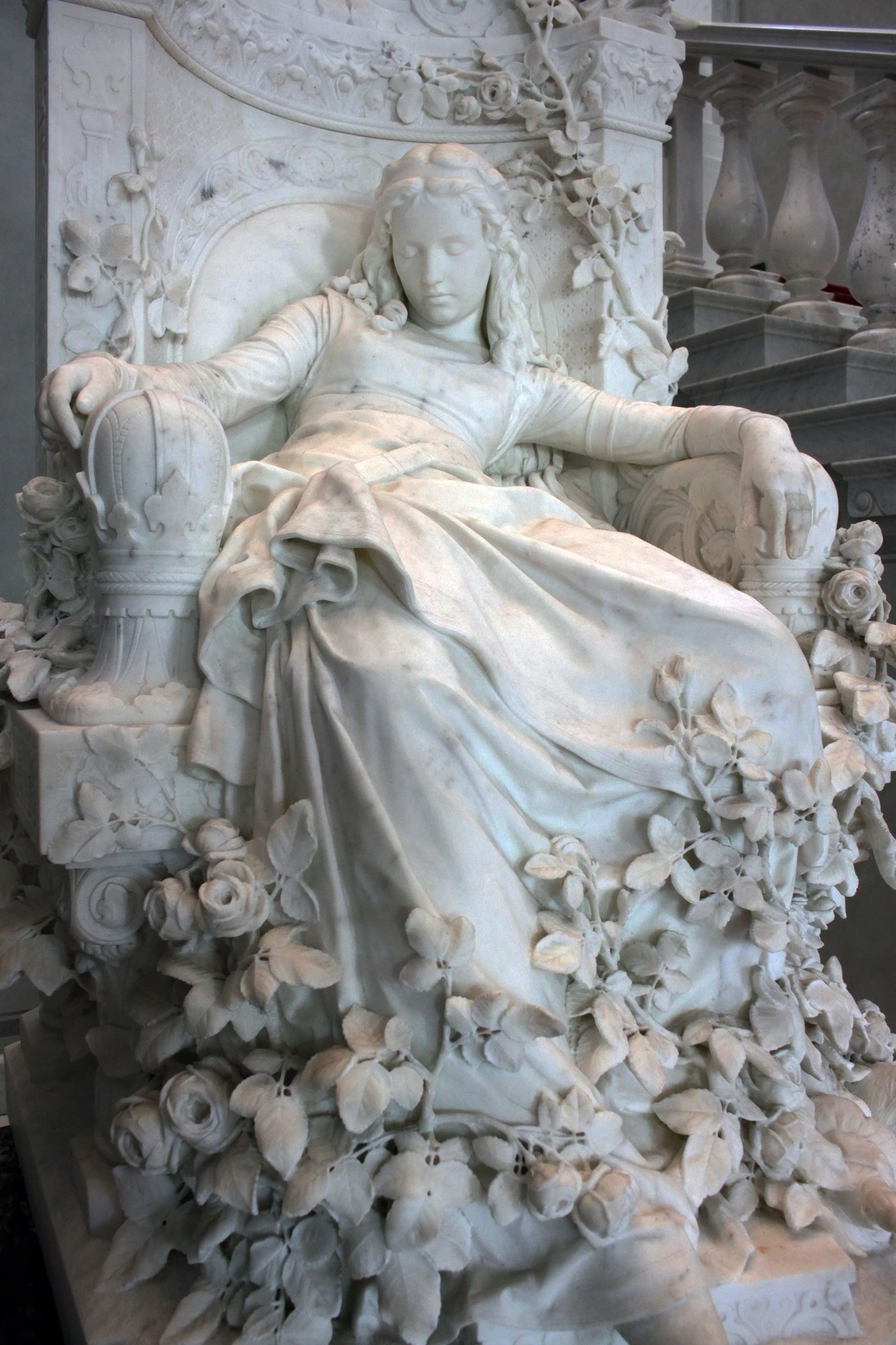 The Sleeping Beauty ( Dornröschen ), a marble statue by L. Sussmann-Hellborn, in the Alte Nationalgalerie, in Berlin.